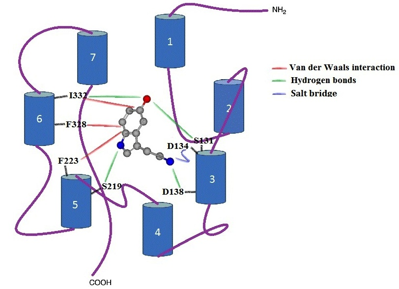 Outline of a G protein-coupled receptor. The most important contacts when serotonin binds to 5-HT2C receptor are with residues in TM helixes 3, 5 and 6.